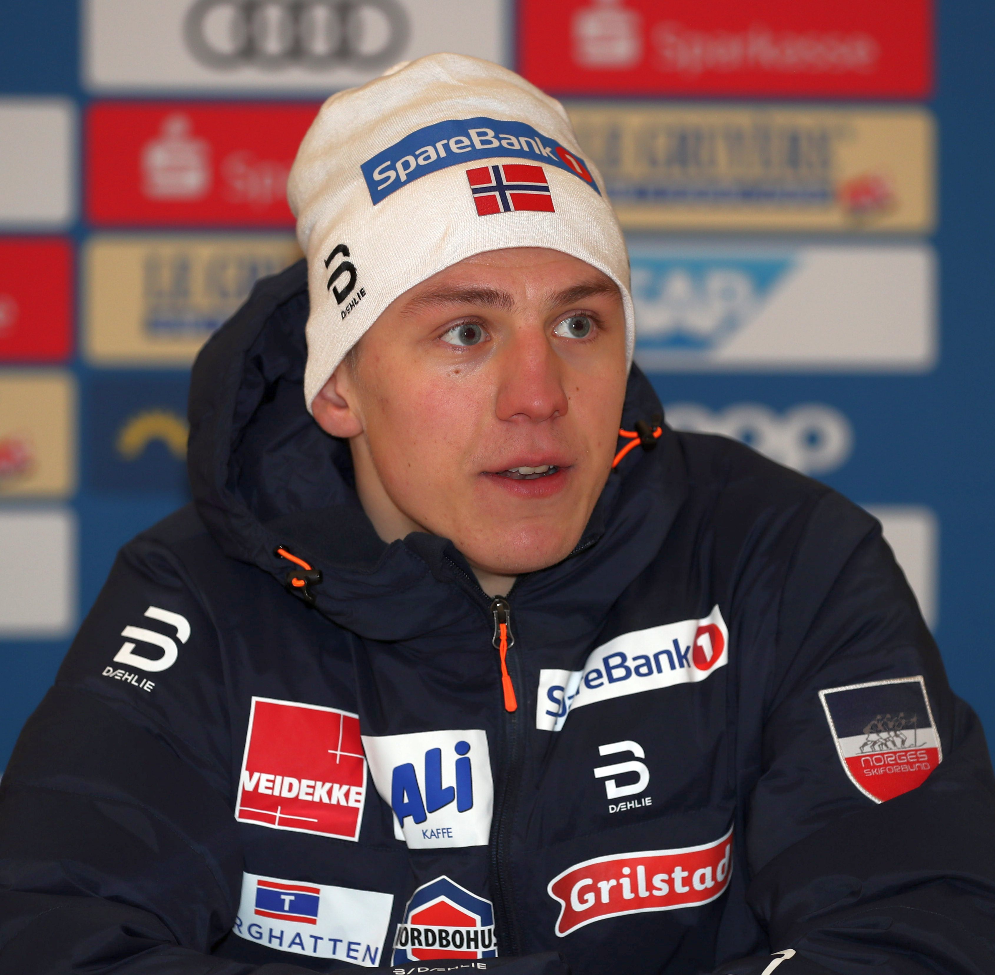 Press Conference at the FIS Cross-Country World Cup Dresden 2019